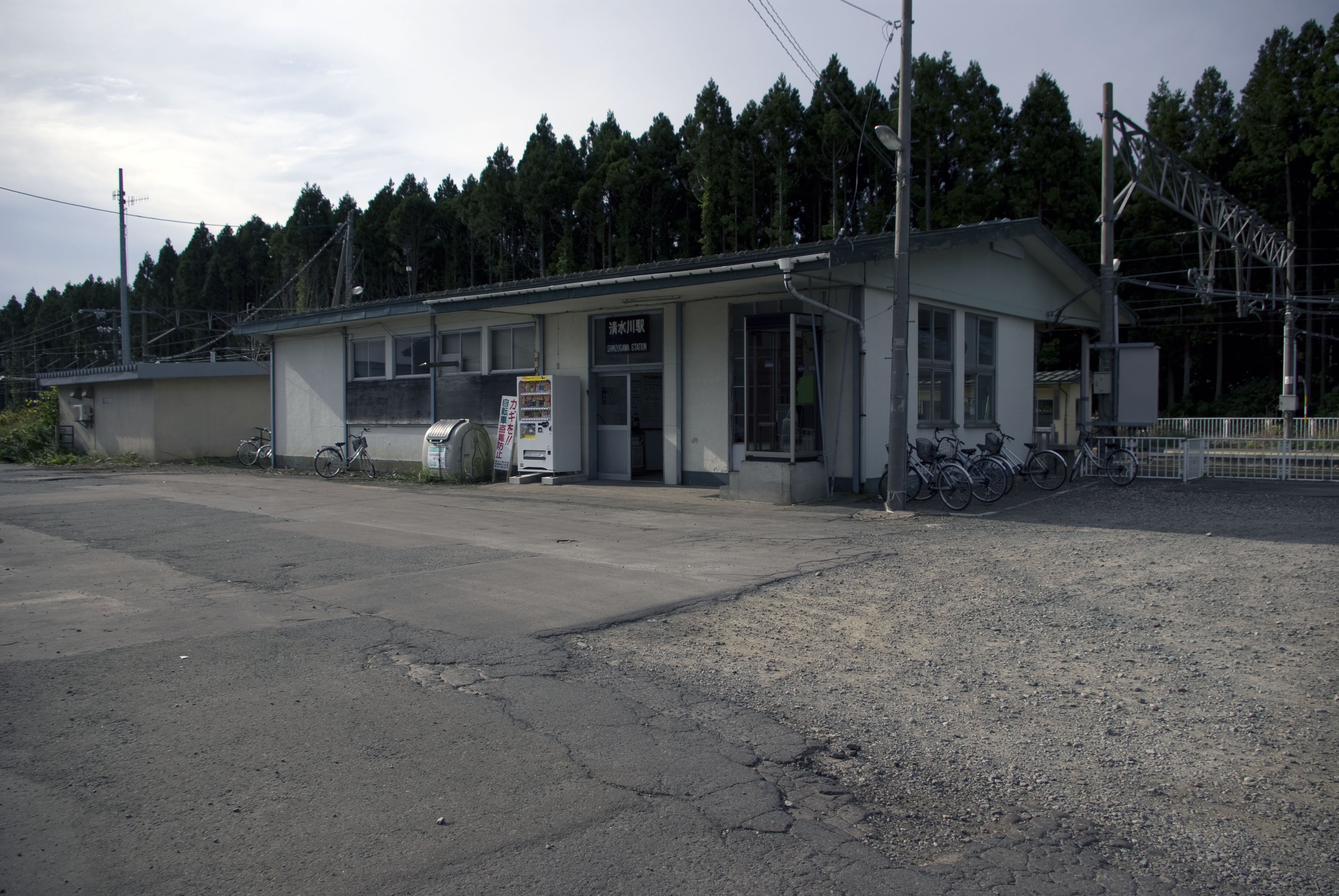 Aoimori Railway Shimizugawa Station